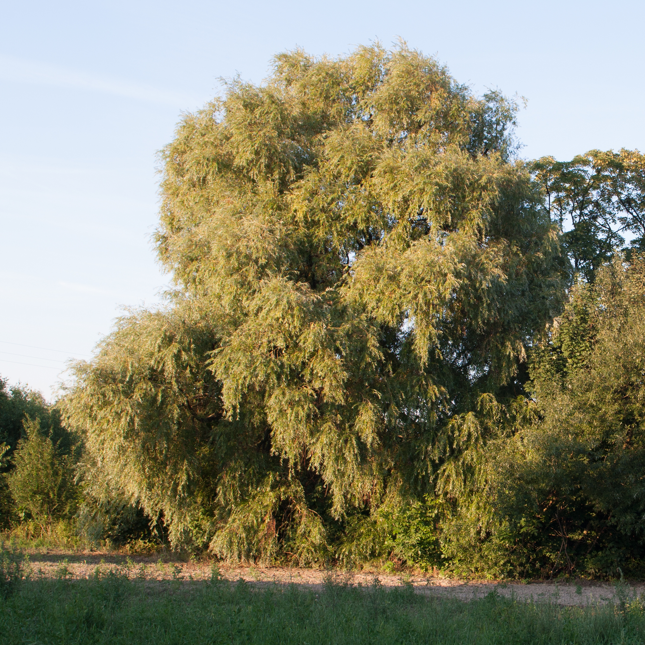 The crack willow, Lodz(Poland)